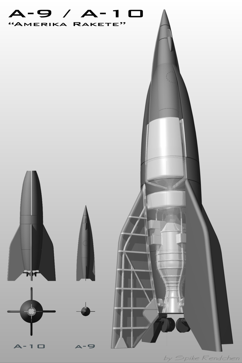 A9/A10 german rocket project.